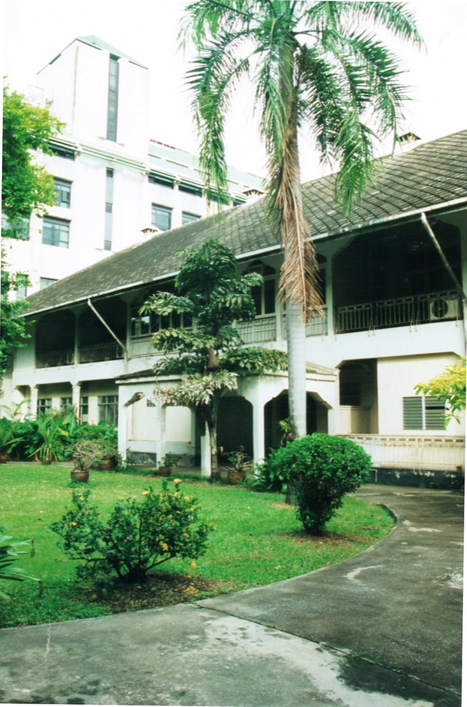 Bangkok Nursing Home is the oldest hospital in Thailand it was established by the British Embassy and community in 1896 for the care and treatment of the Bangkok's ex-pat community.